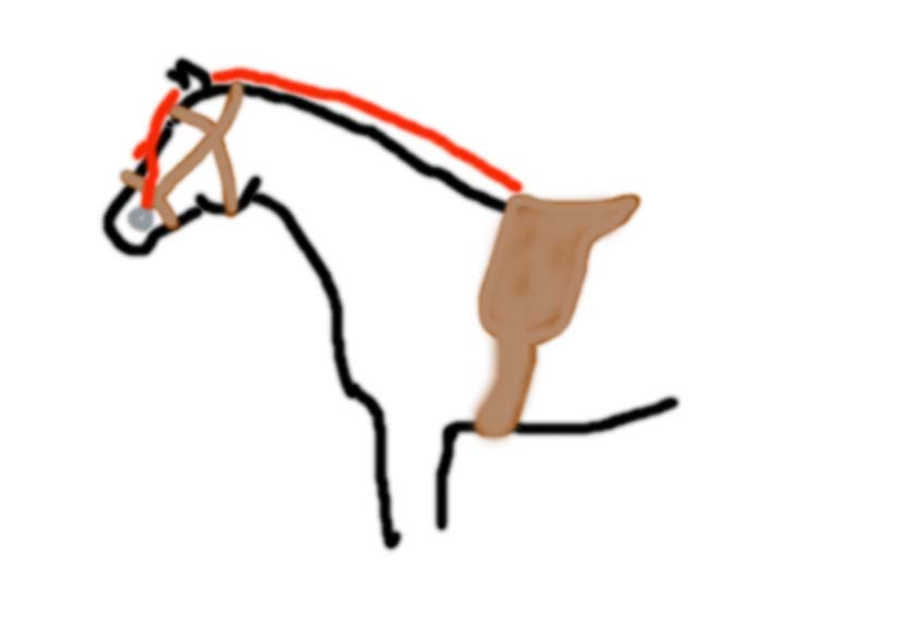 overcheck demonstrated on horse